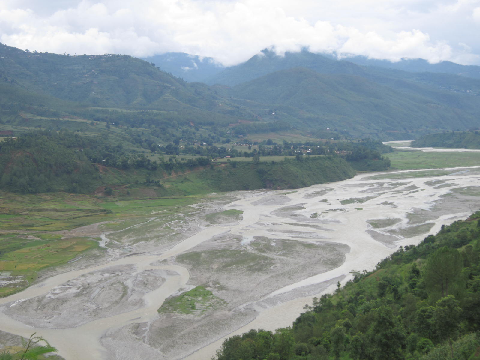 Indrawati river from kavre